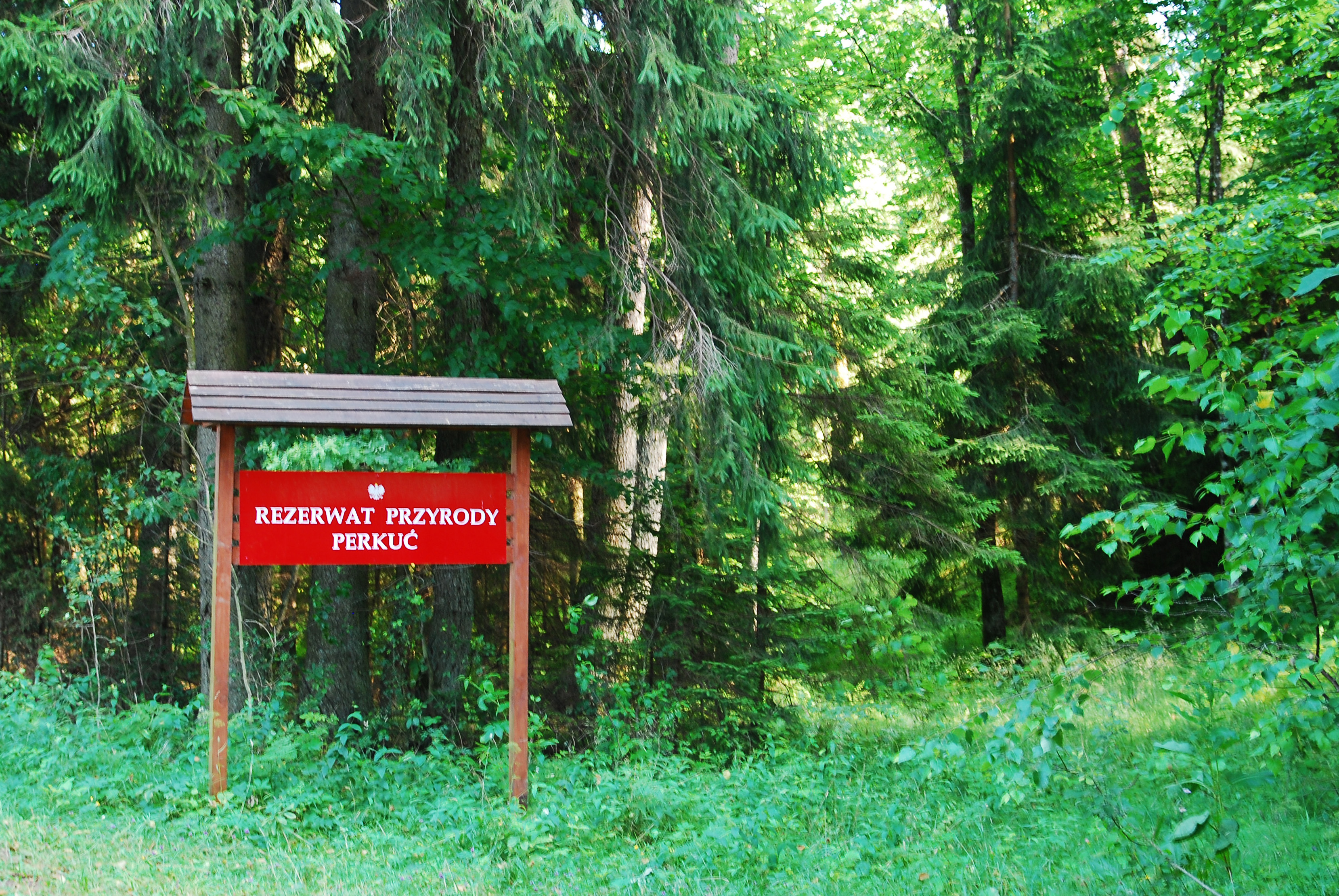 This photo from Podlaskie Voievodeship was taken during Polish Wikiexpedition 2009 set up by Wikimedia Polska Association. The making of this document was supported by Wikimedia Polska. Rezerwat Prerkuć